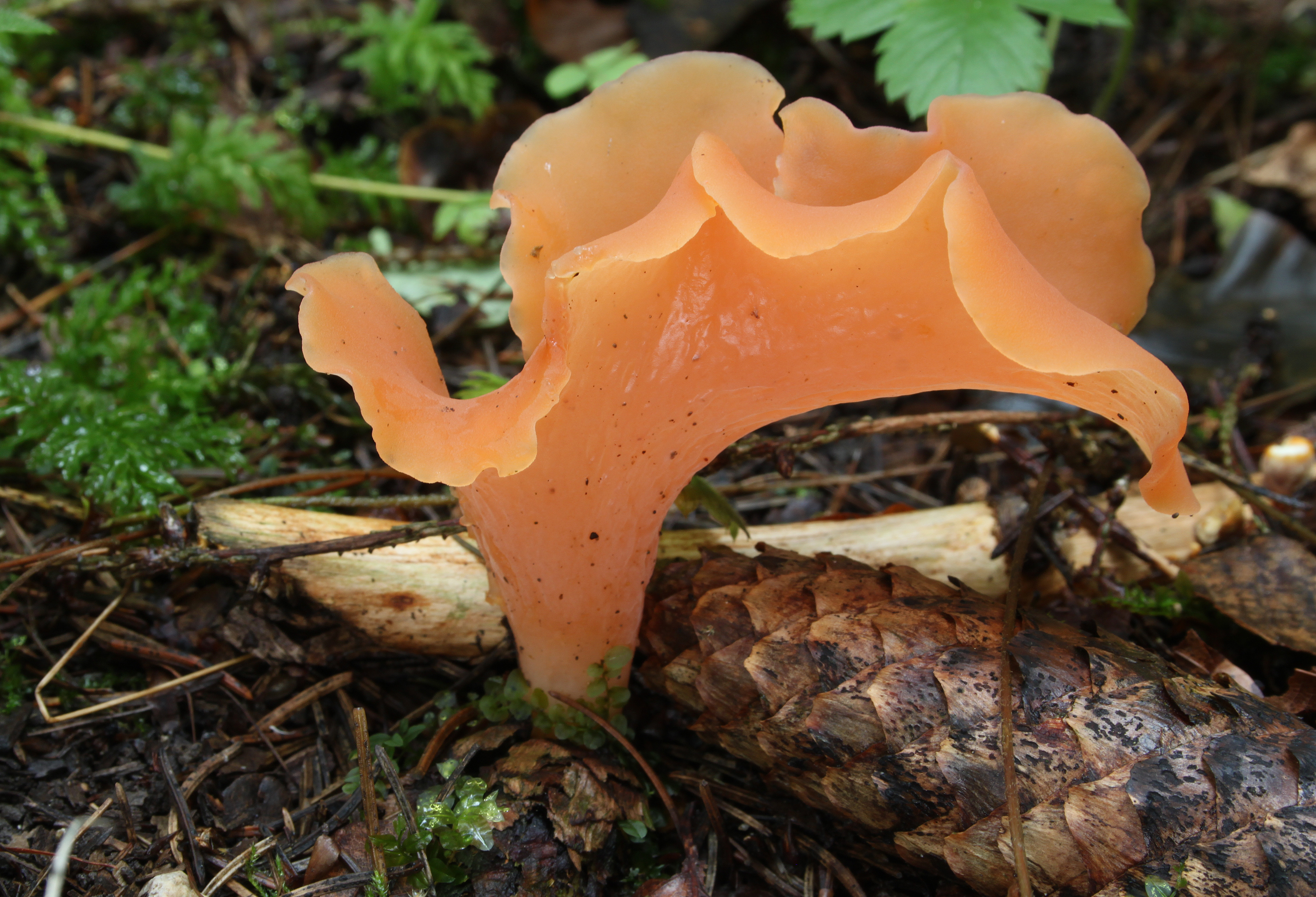 Tremiscus helvelloides, Family: Exidiaceae, Location: Germany, Ulm, Ermingen